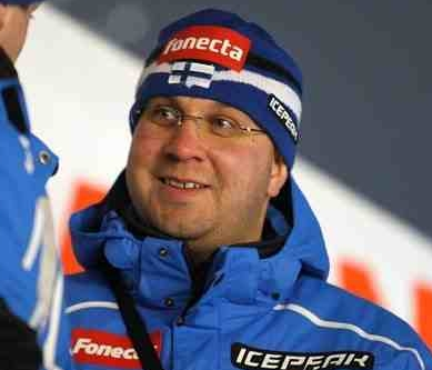 Janne Väätäinen during FIS Ski Jumping World Cup in Zakopane, 2010